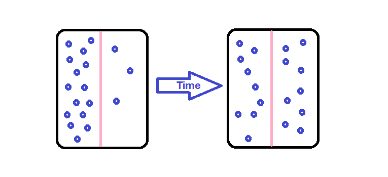 simple diffusion diagram